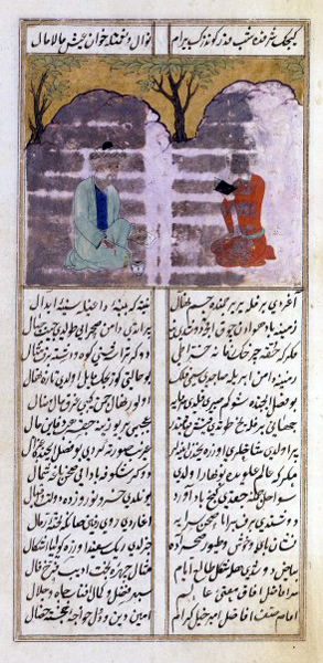 Poet Bâkî and young reader. Page from Bâkî's Diwan.